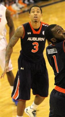 Casey Prather made Jumper